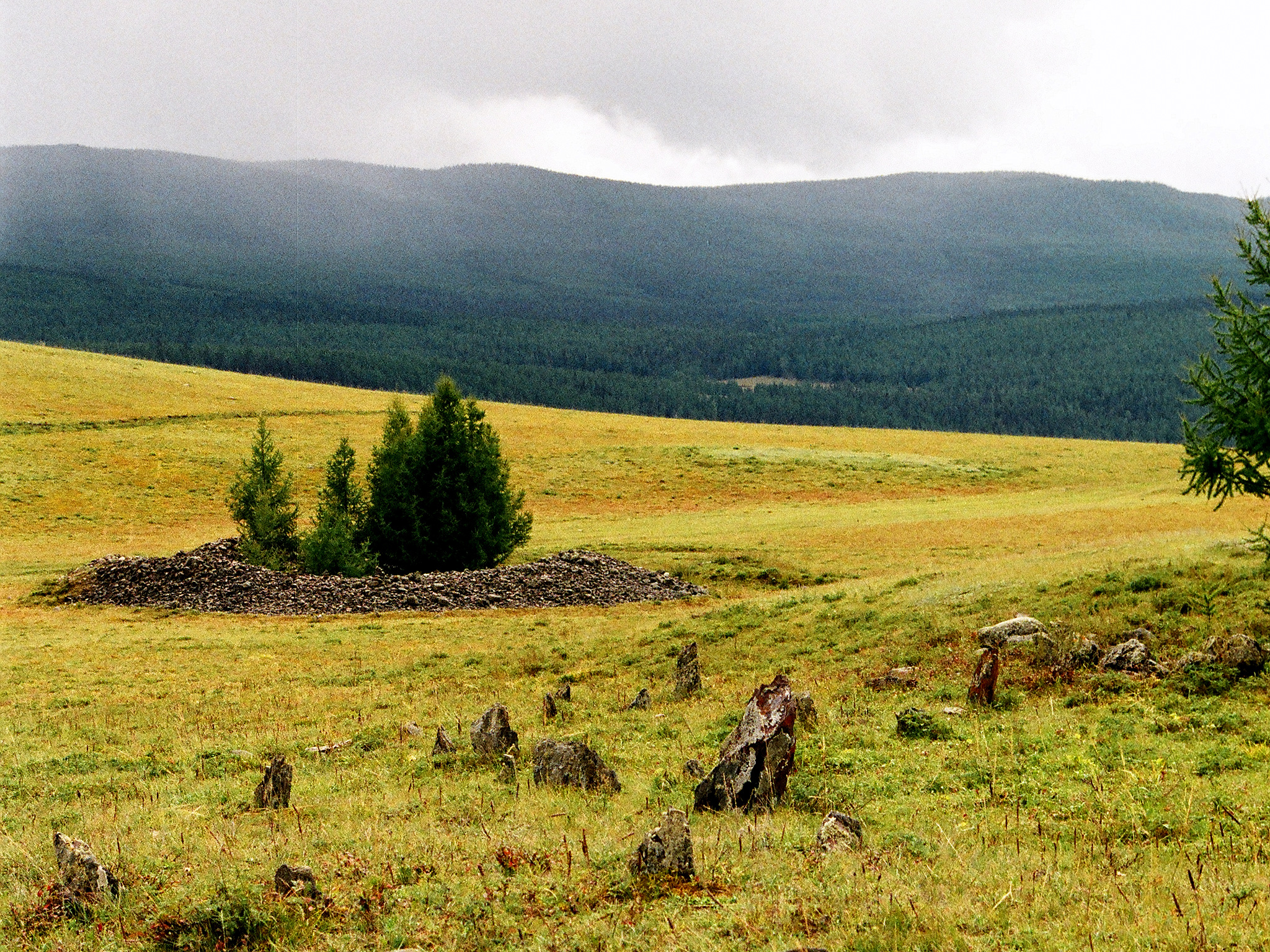 Pazyryk kurgans